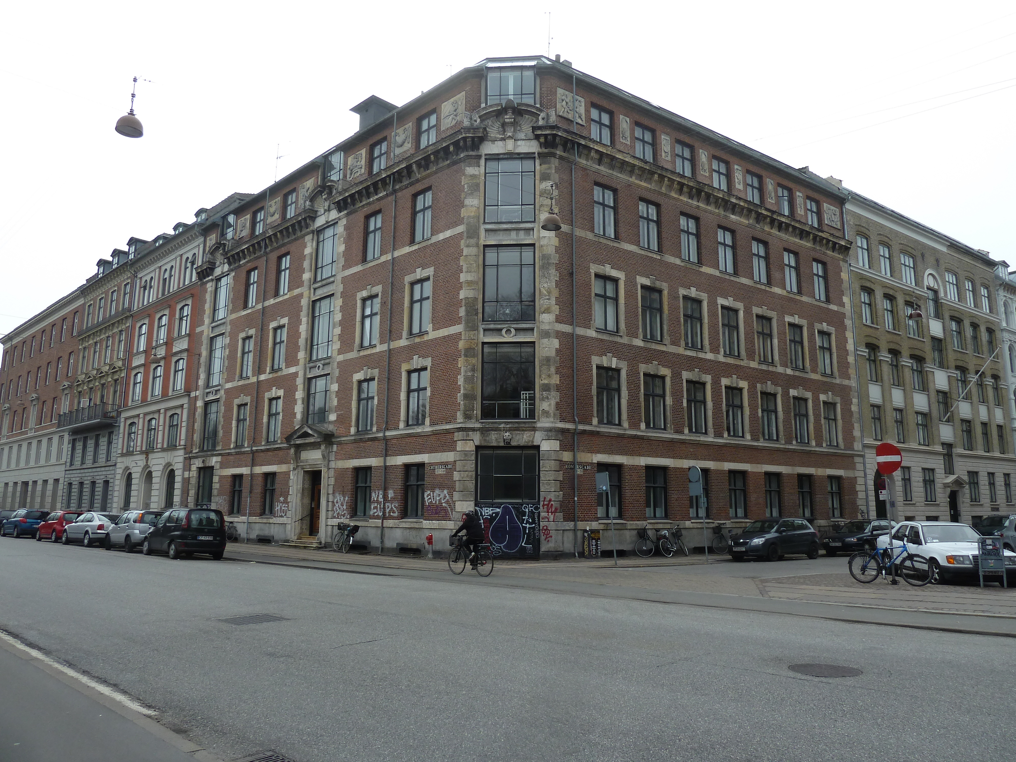 Kunstnerhjemmet on Gotersgade in Copenhagen, Denmark